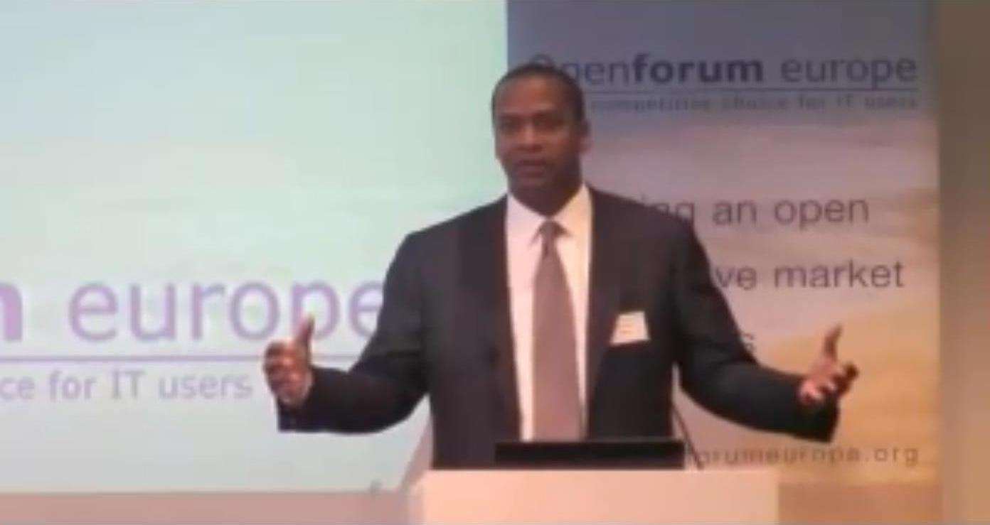 David Drummond, Senior Vice-President Corporate Development and Chief Legal Officer, Google, during Openforum europe - Summit 2010